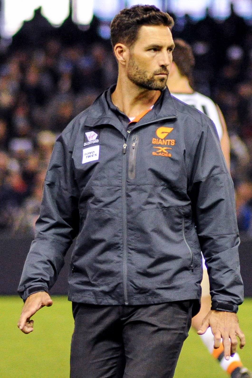 Brad Miller during the AFL round twelve match between Carlton and Greater Western Sydney on 11 June 2017 at Etihad Stadium in Melbourne, Victoria.